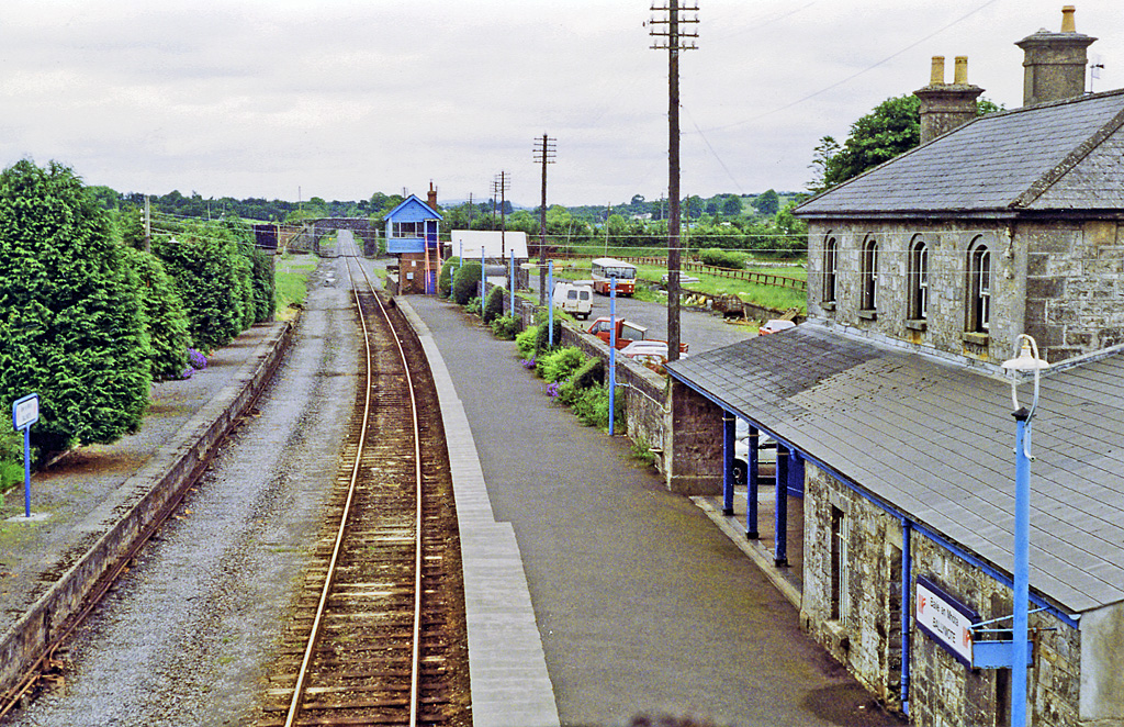 Ballymote Station, Near to Baile an Mhota and Emlagh, Sligo, Ireland. View northward, towards Sligo; ex-Midland Great Western Dublin - Mullingar - Collooney - Sligo line. Note that the line has been singled.